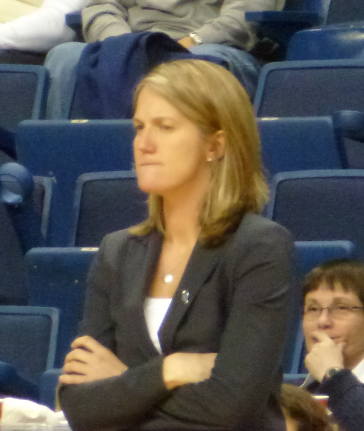 Courtney Banghart head coach womens basketball Princeton Taken at the NCAA Womens Basketball Tournament. First round games held at Webster Bank Arena in Bridgeport CT USA.